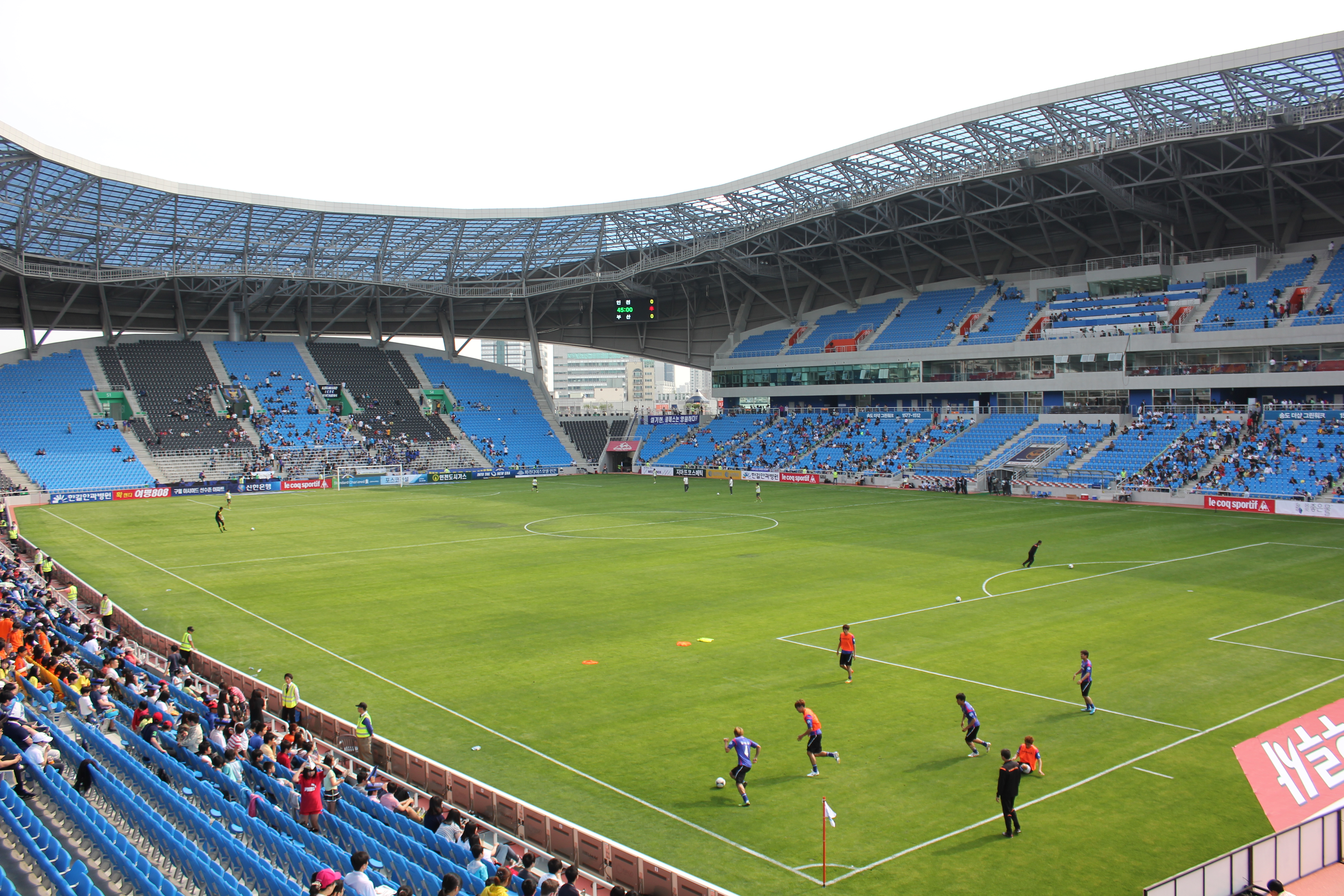 Incheon Football Stadium